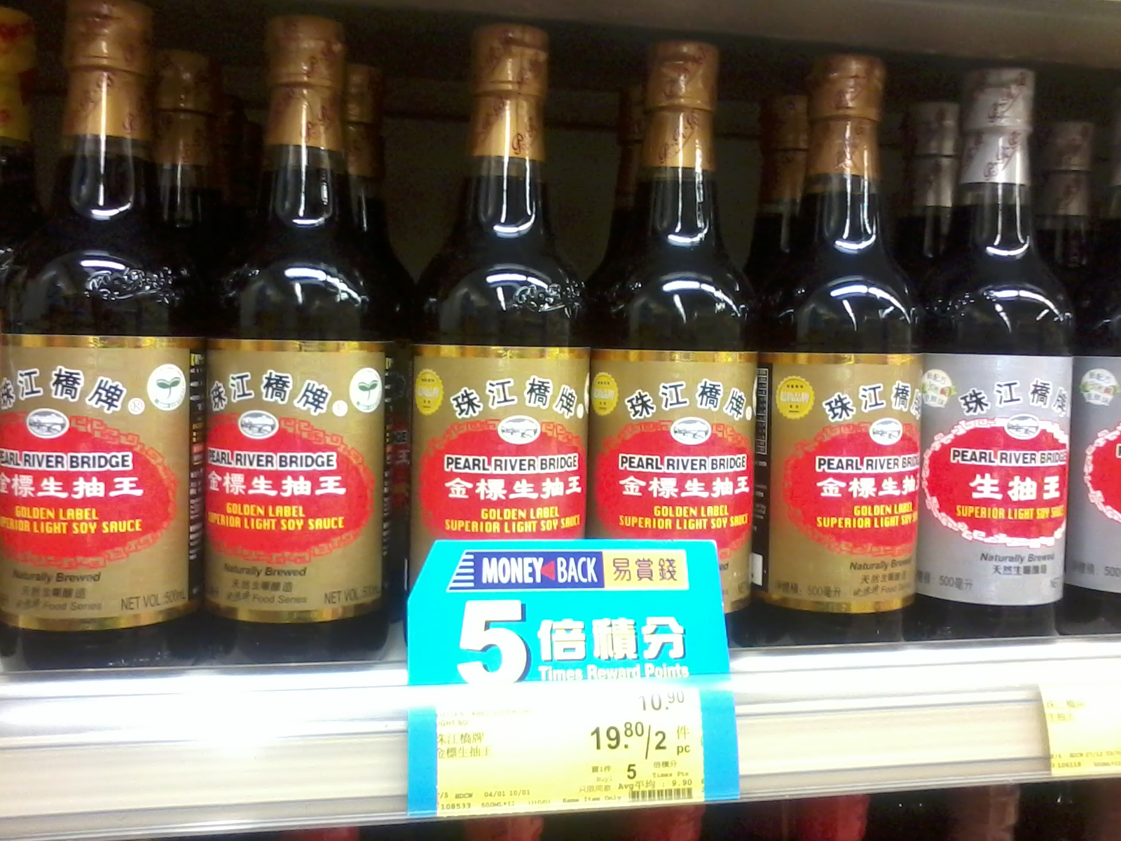 珠江橋牌